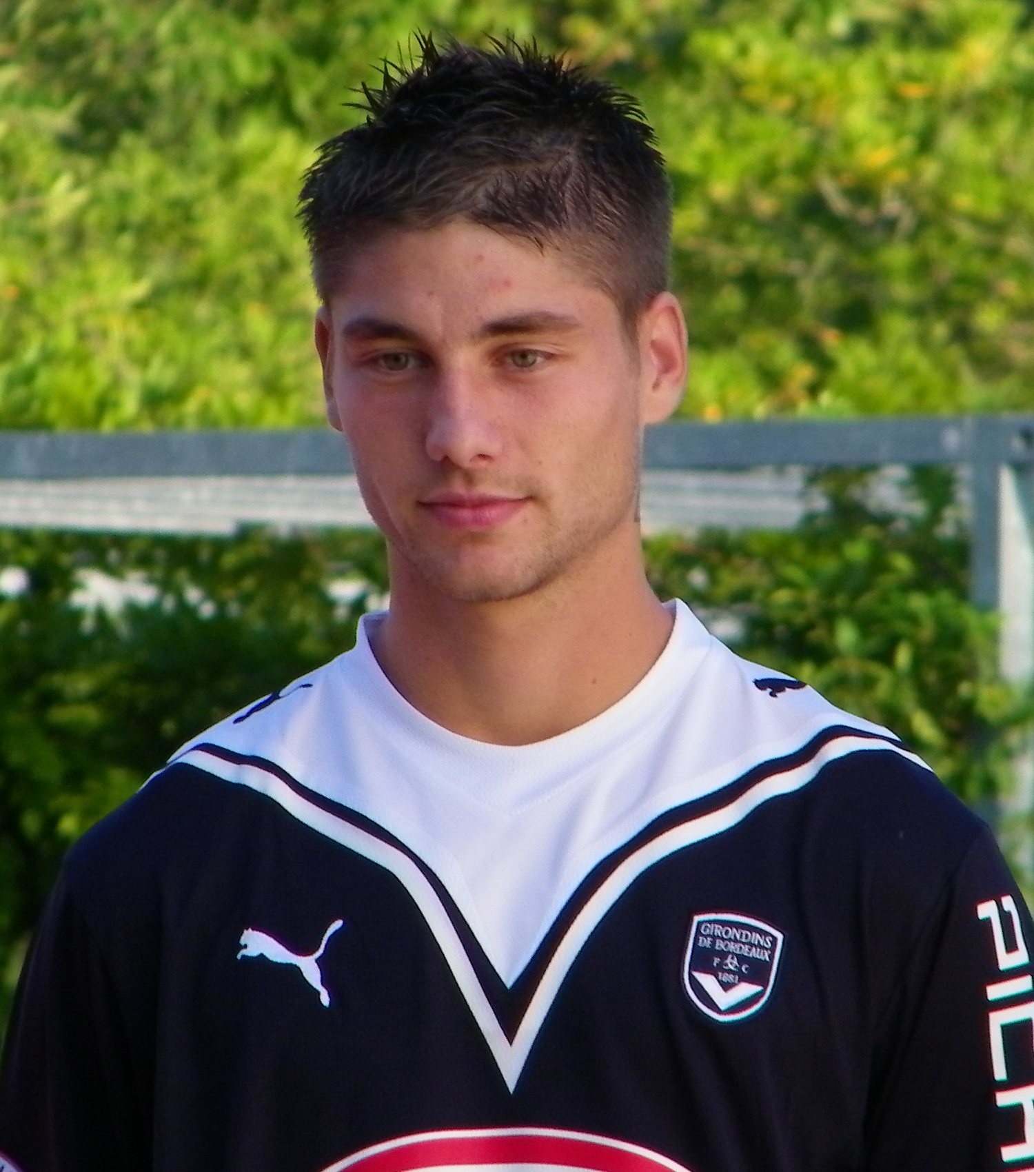 Players FC Girondins Bordeaux. Taken by Valentin Trijoulet. Public domain.